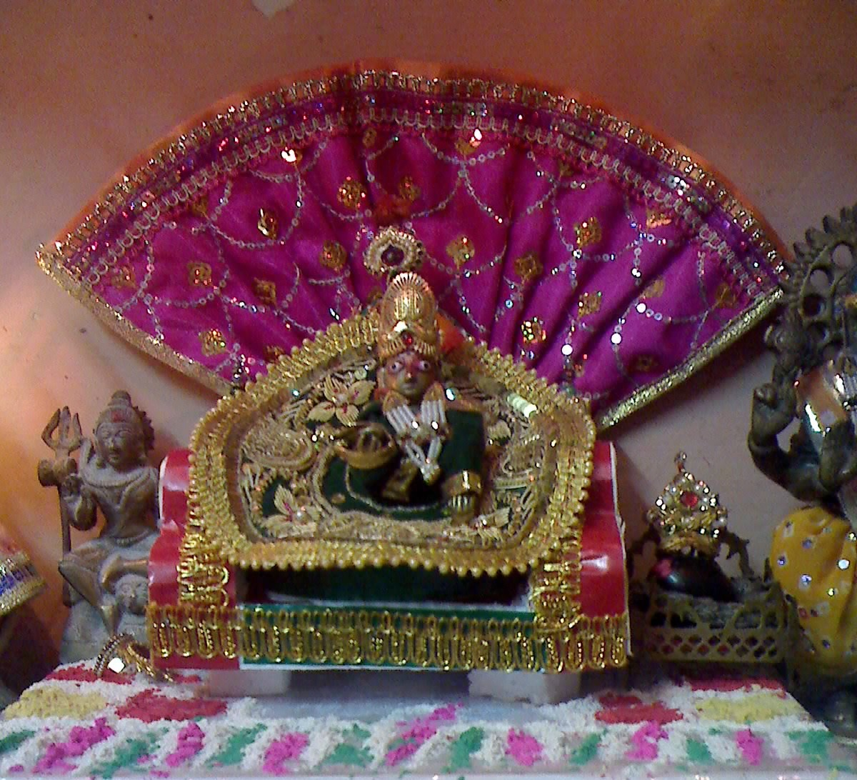 Hindu God Lord Krishna